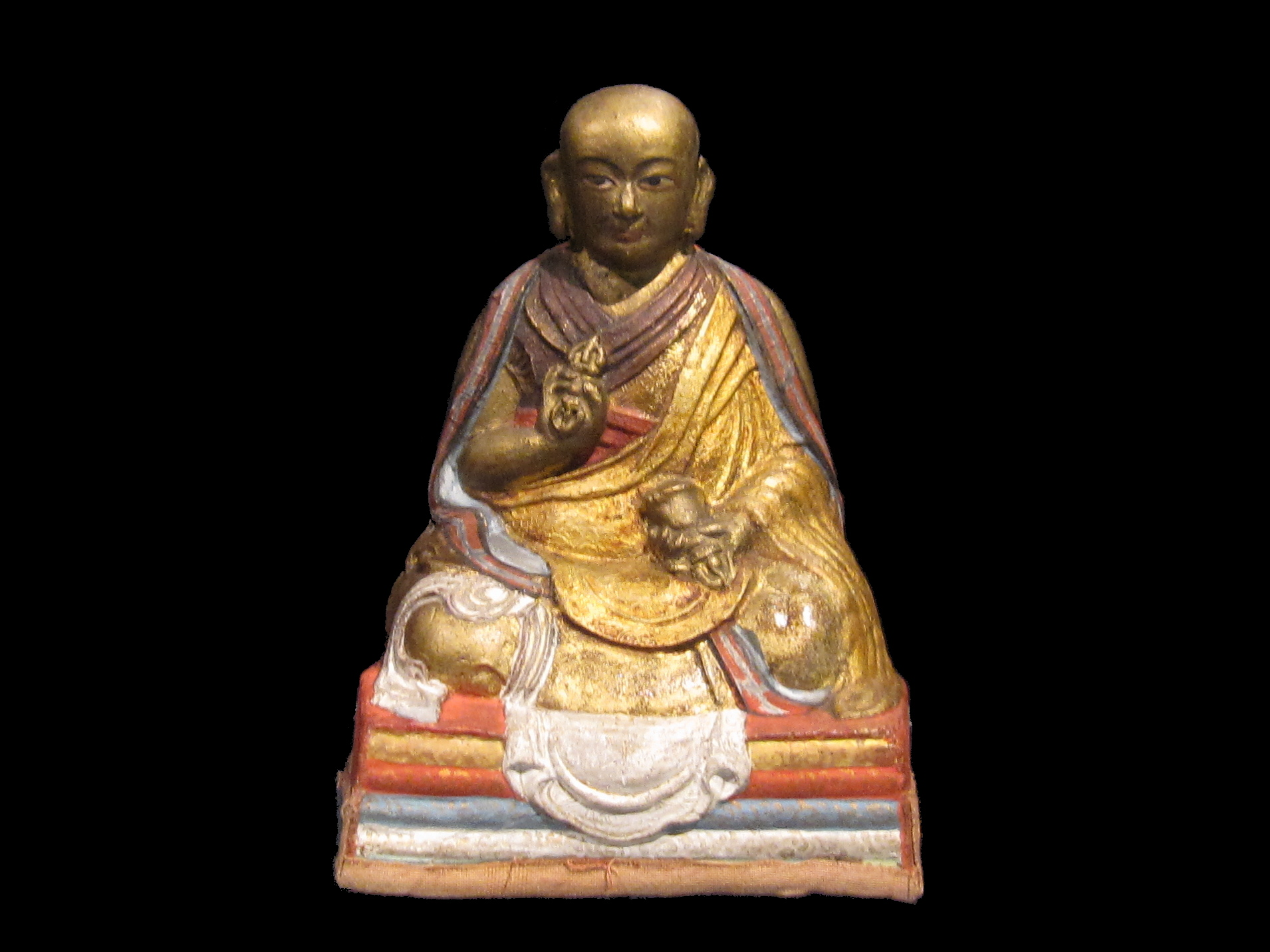 Statuette of Öndör Gegen Zanabazar. Mongolia, 19th century CE.